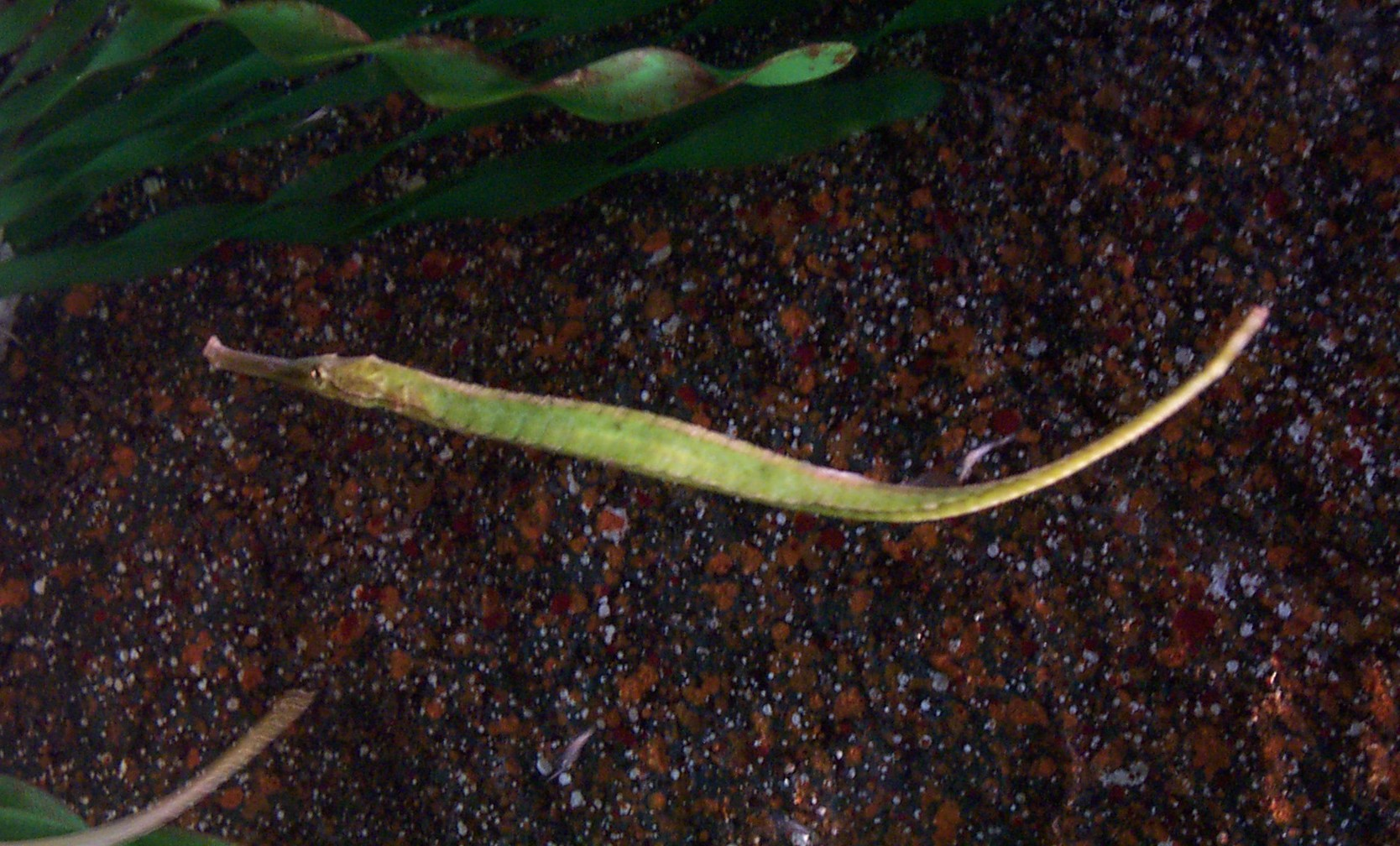 Pipefish, photographed at Siam Ocean World aquarium, Bangkok (Syngnathoides biaculeatus)